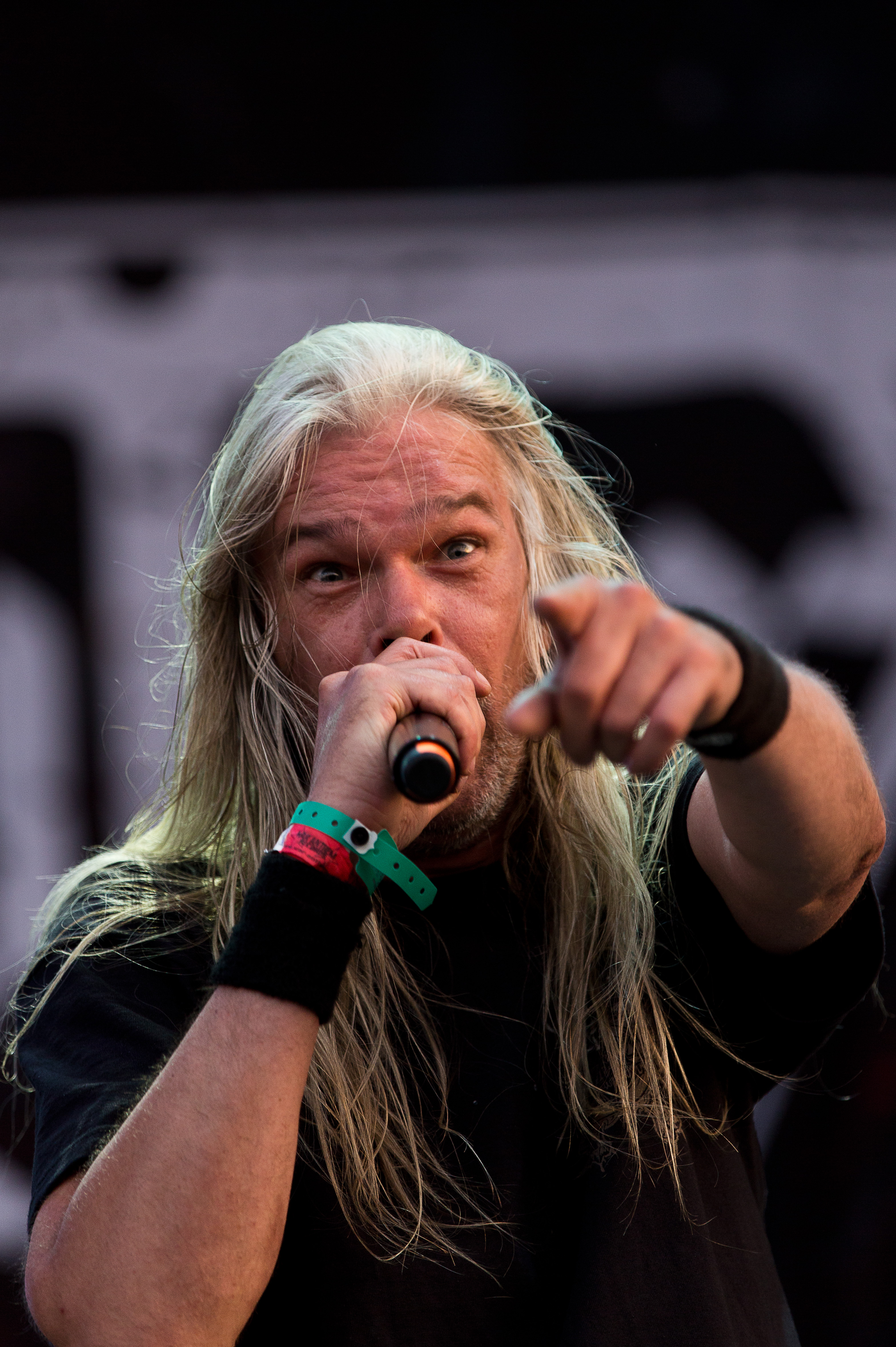 The Dutch death metal band Asphyx at the Party.San Open Air 2015 in Obermehler-Schlotheim/Germany.